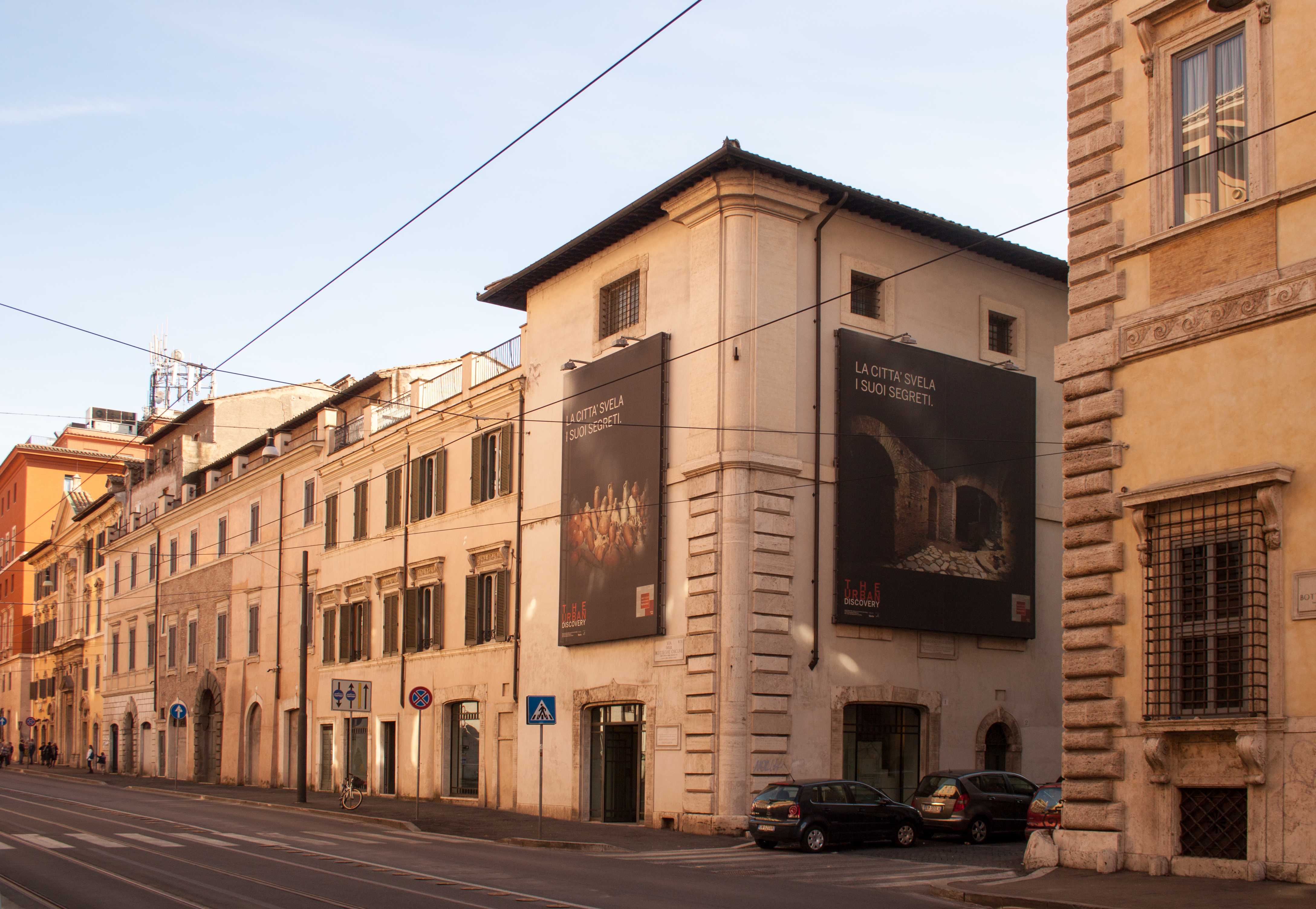 Crypta Balbi, interior, courtyardlabel QS:Len,"Crypta Balbi, interior, courtyard" label QS:Lhu,"A múzeum bejárata"